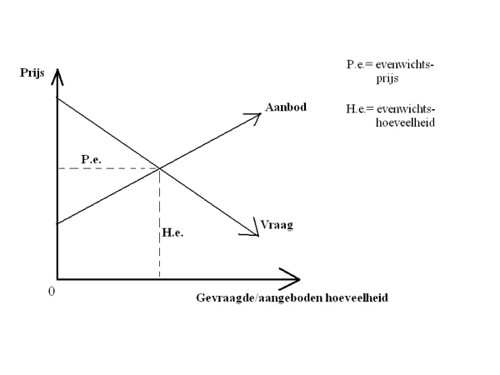 Marshallian cross